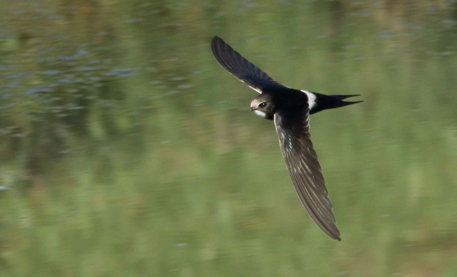 White-rumped swift (Apus caffer) near Kokstad, KwaZulu-Natal